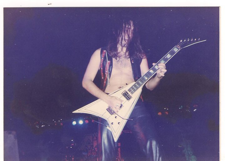 época de 92